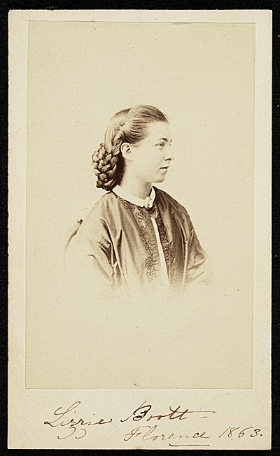 This is a photo of the Artist Frank Duveneck's wife.